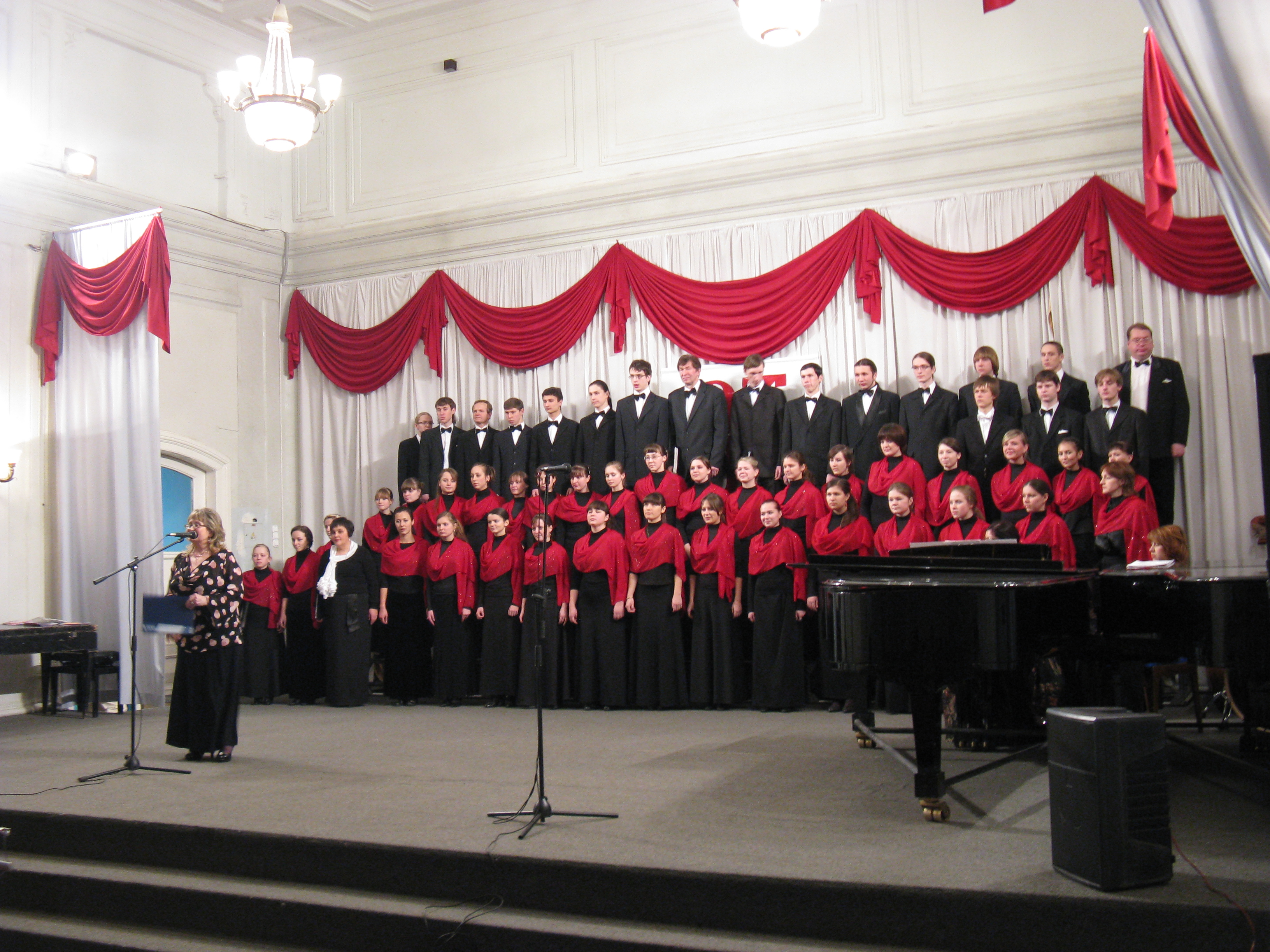 Chorus of Perm Musical College